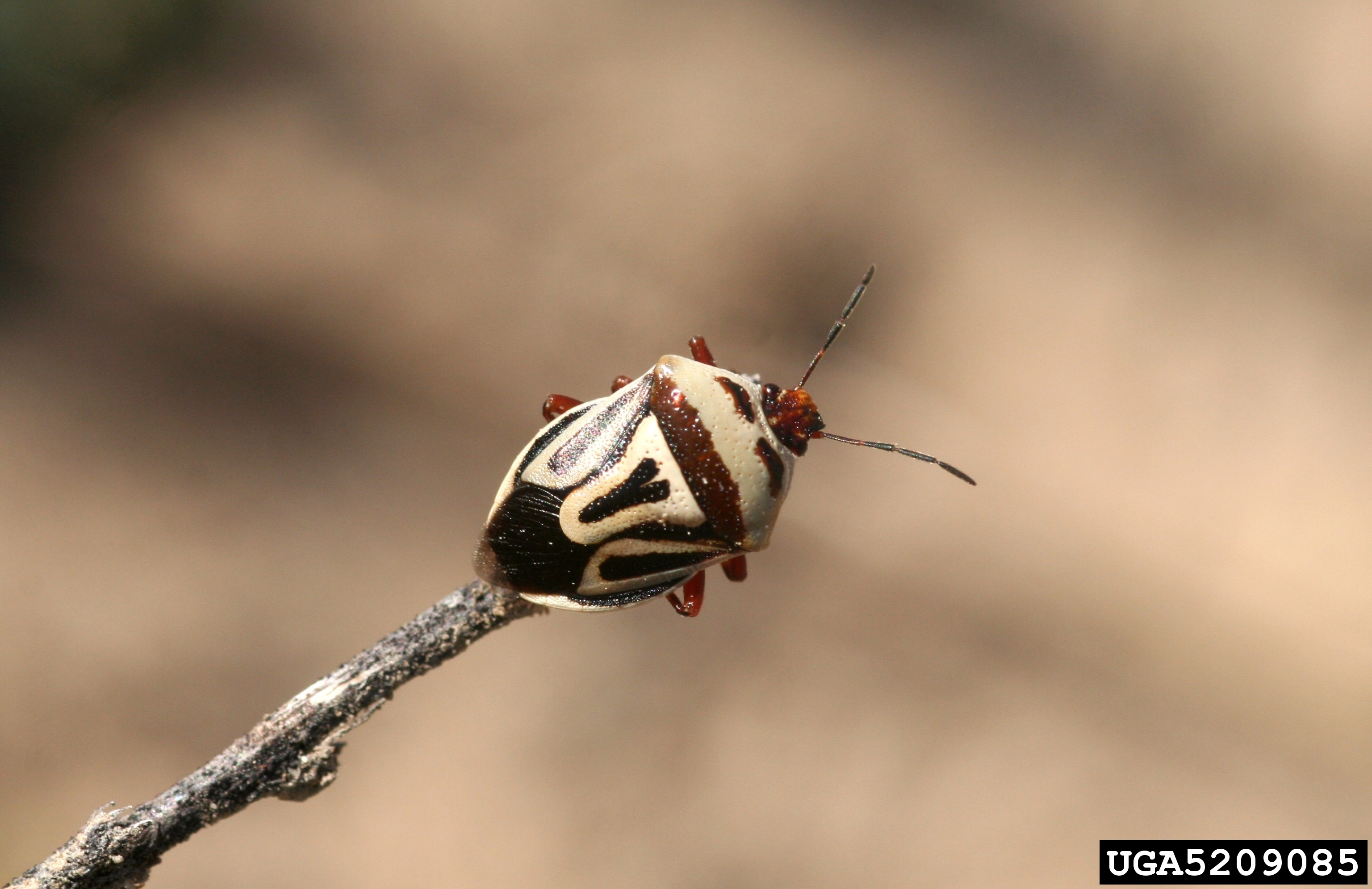 Perillus bioculatus; family Pentatomidae